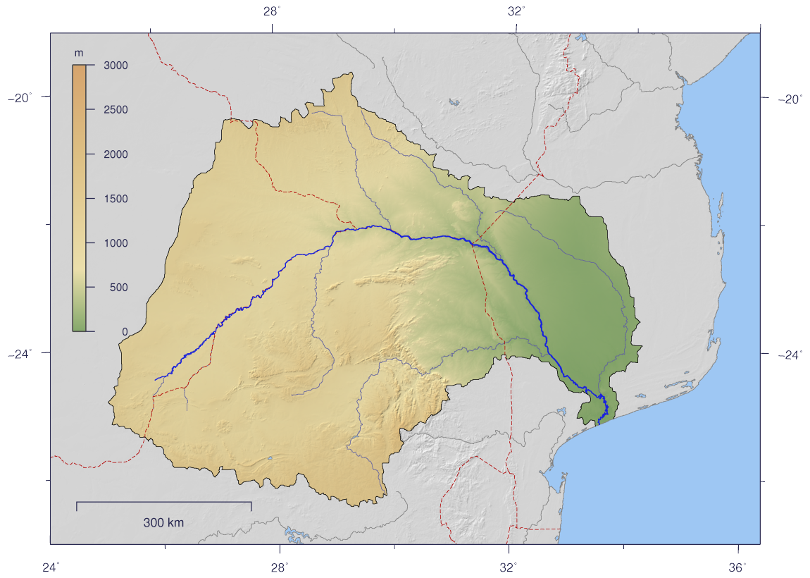 Course and Watershed of the Limpopo River with topography shading and political boundaries.